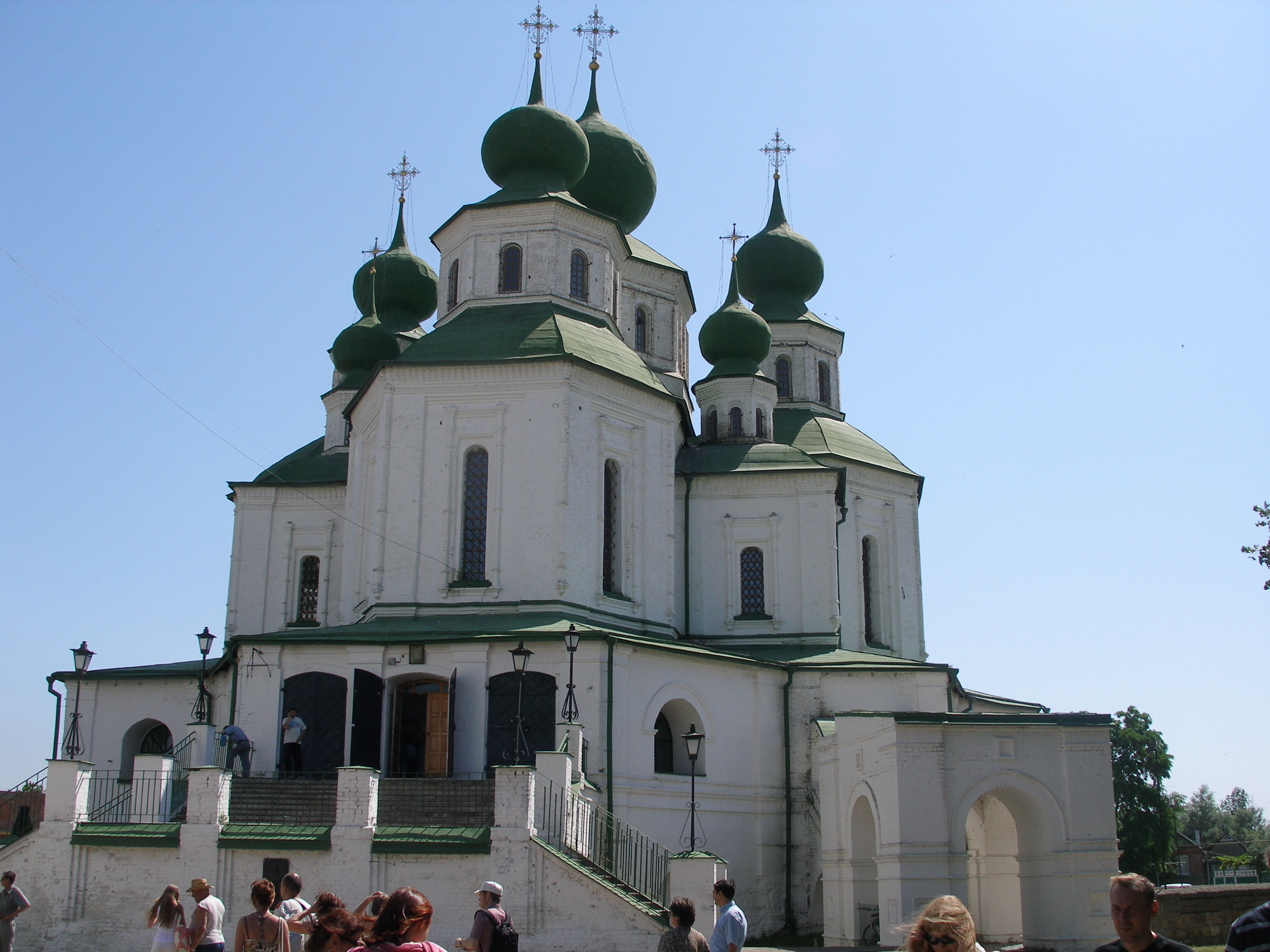 One of the symbols of Don Cossack culture. The construction was completed in 1719. The cathedral is famous for its five-tier iconostasis.